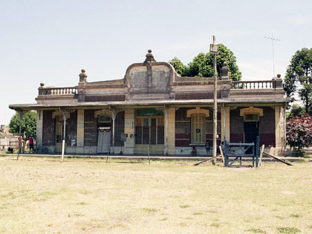 Marcos Paz Train Station